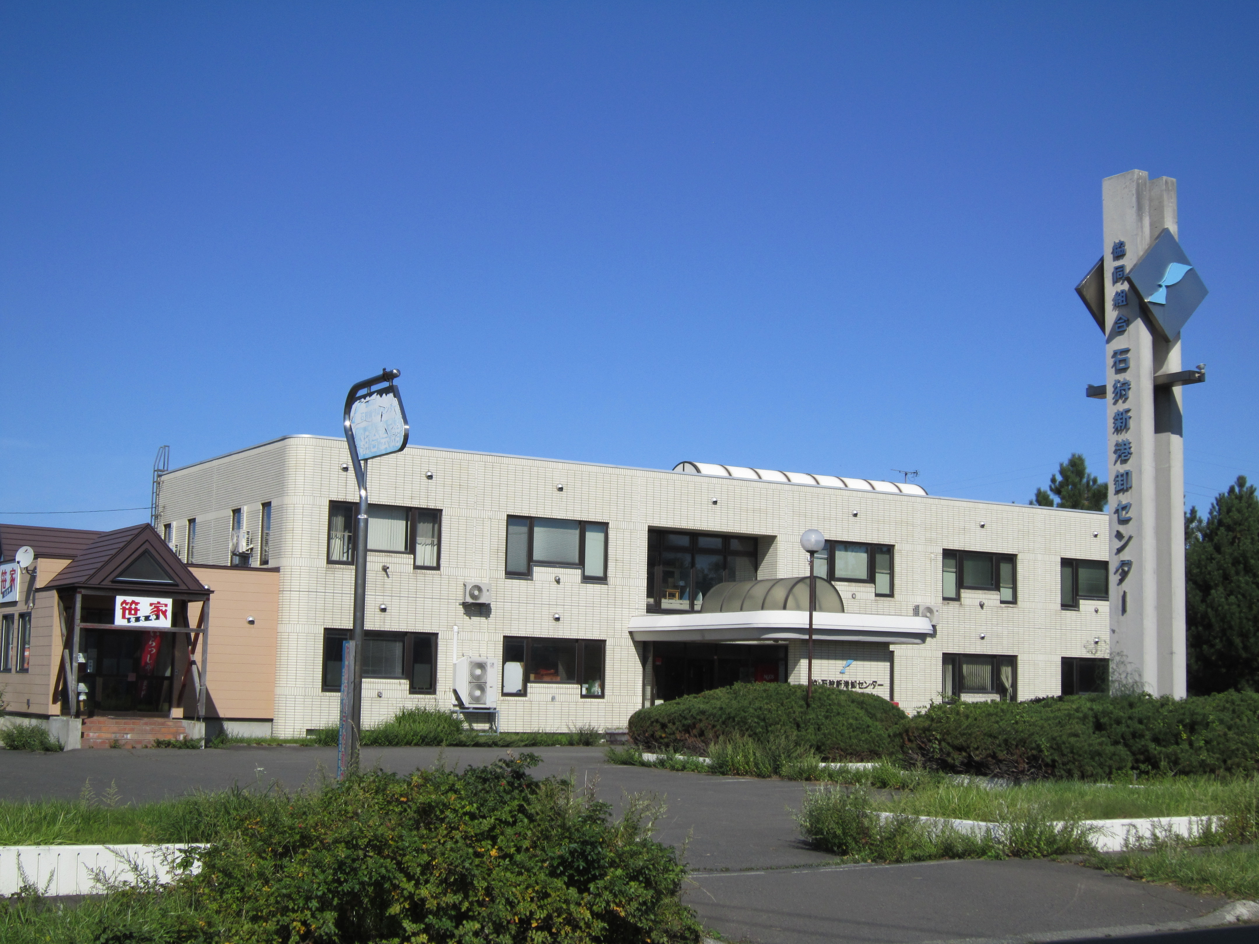 Ishikari Shinko Oroshi Center Hall